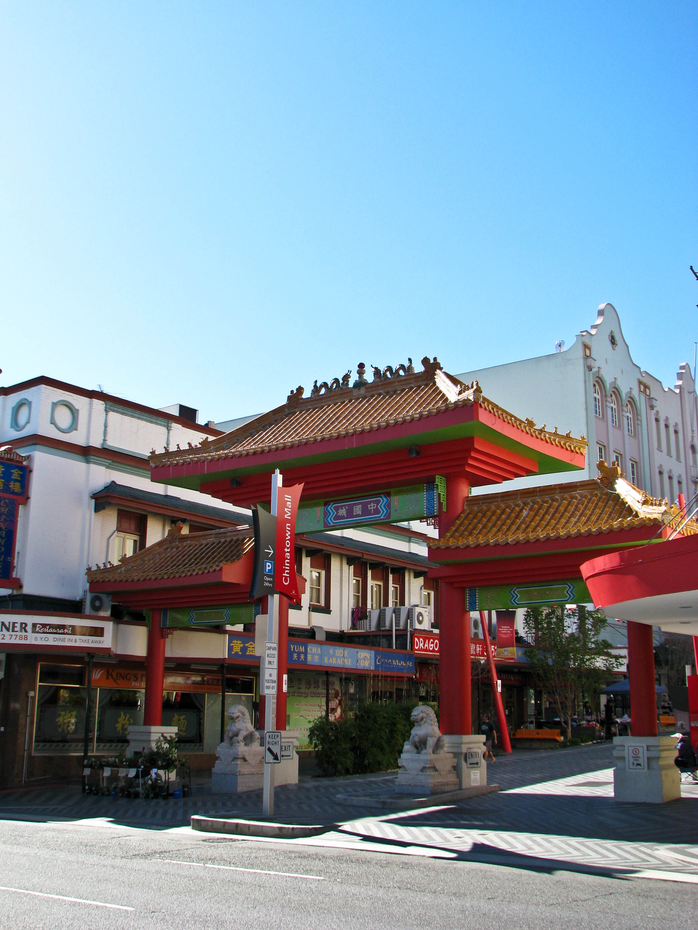 Wickham Street entrance to Chinatown Mall, Brisbane.